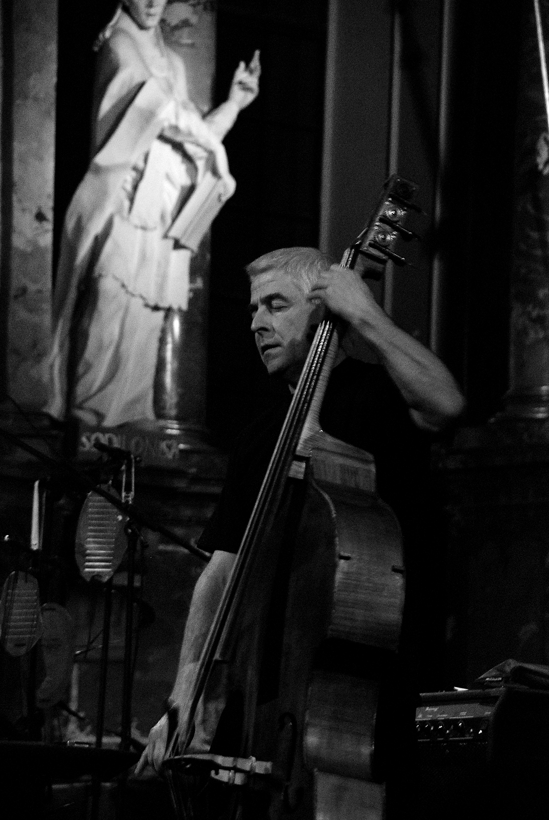 Barry Guy